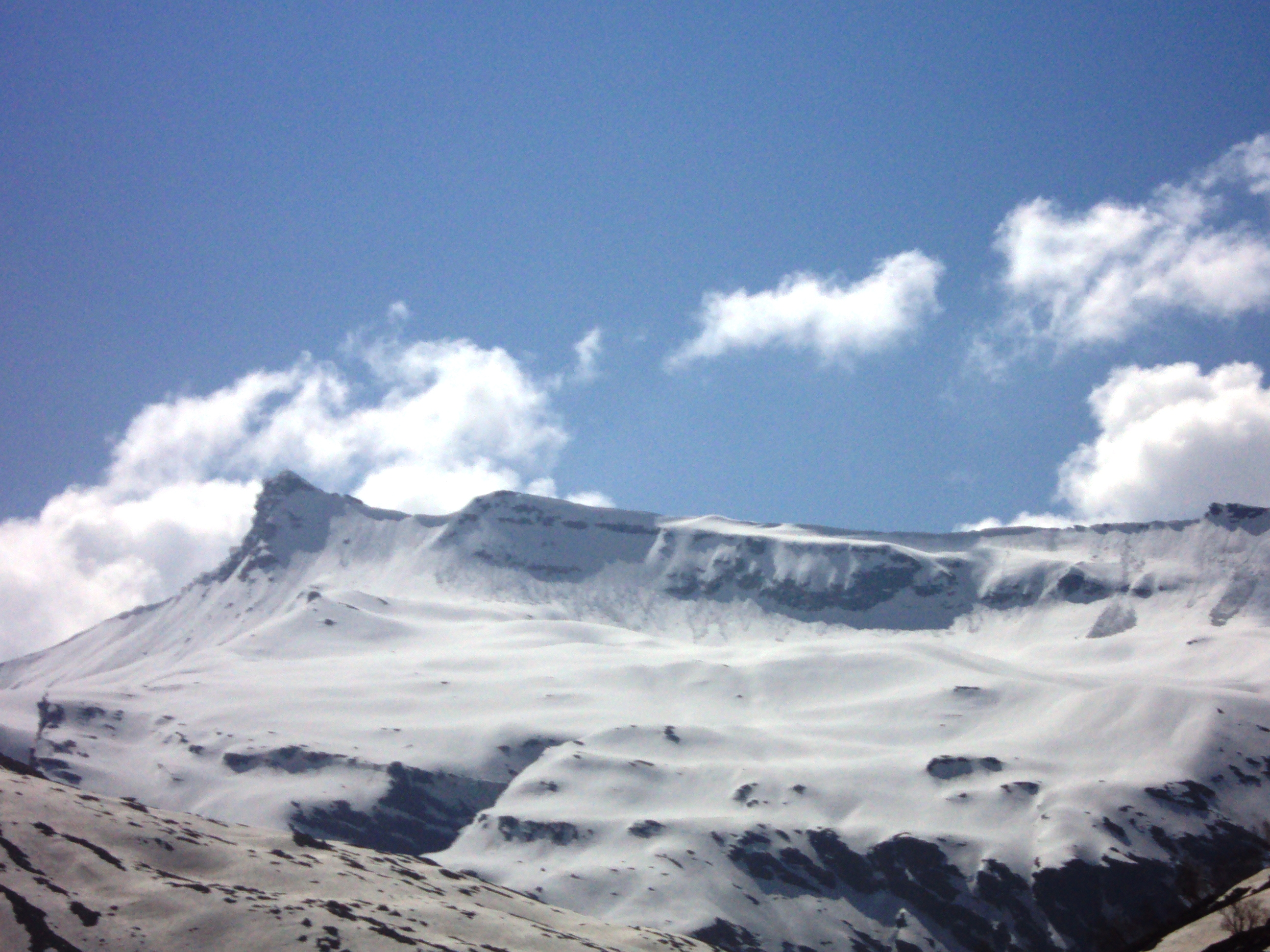 A panoramic view of distant Himalayan peaks from Rohtang Pass,Himachal Pradesh on 24 May 2009.